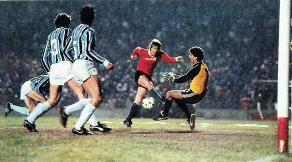 Independiente x Gremio. Copa Libertadores final 1984.